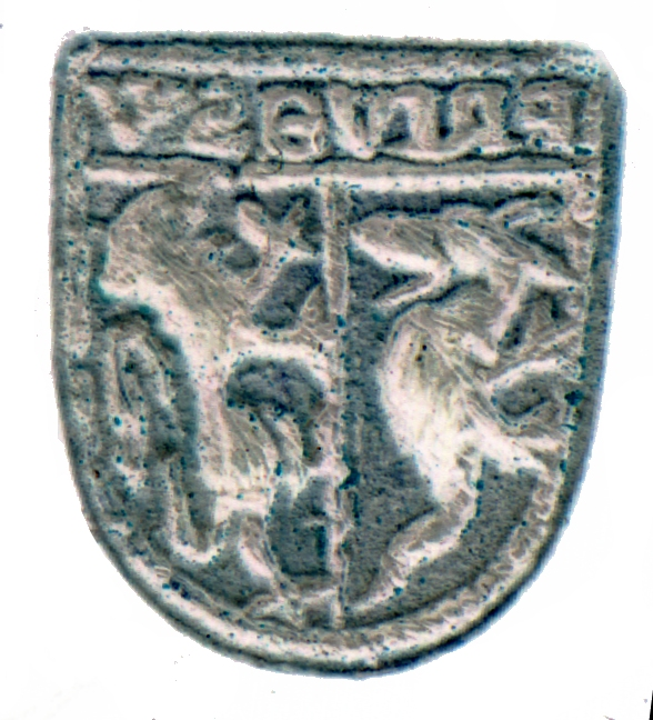 A copper alloy matrix recorded from a cast replica. Small shield-shaped matrix with a tapering hexagonal handle surmounted by a circular suspension loop. Device of per pale a wyvern segreant reguardant and a lion rampant. A fine line separates the creatures from the legend area, and a similar fine line deliniates the outer edge of the matrix, encompassing legend and device. Measurements: face 14 mm x 16 mm, 18 mm high.